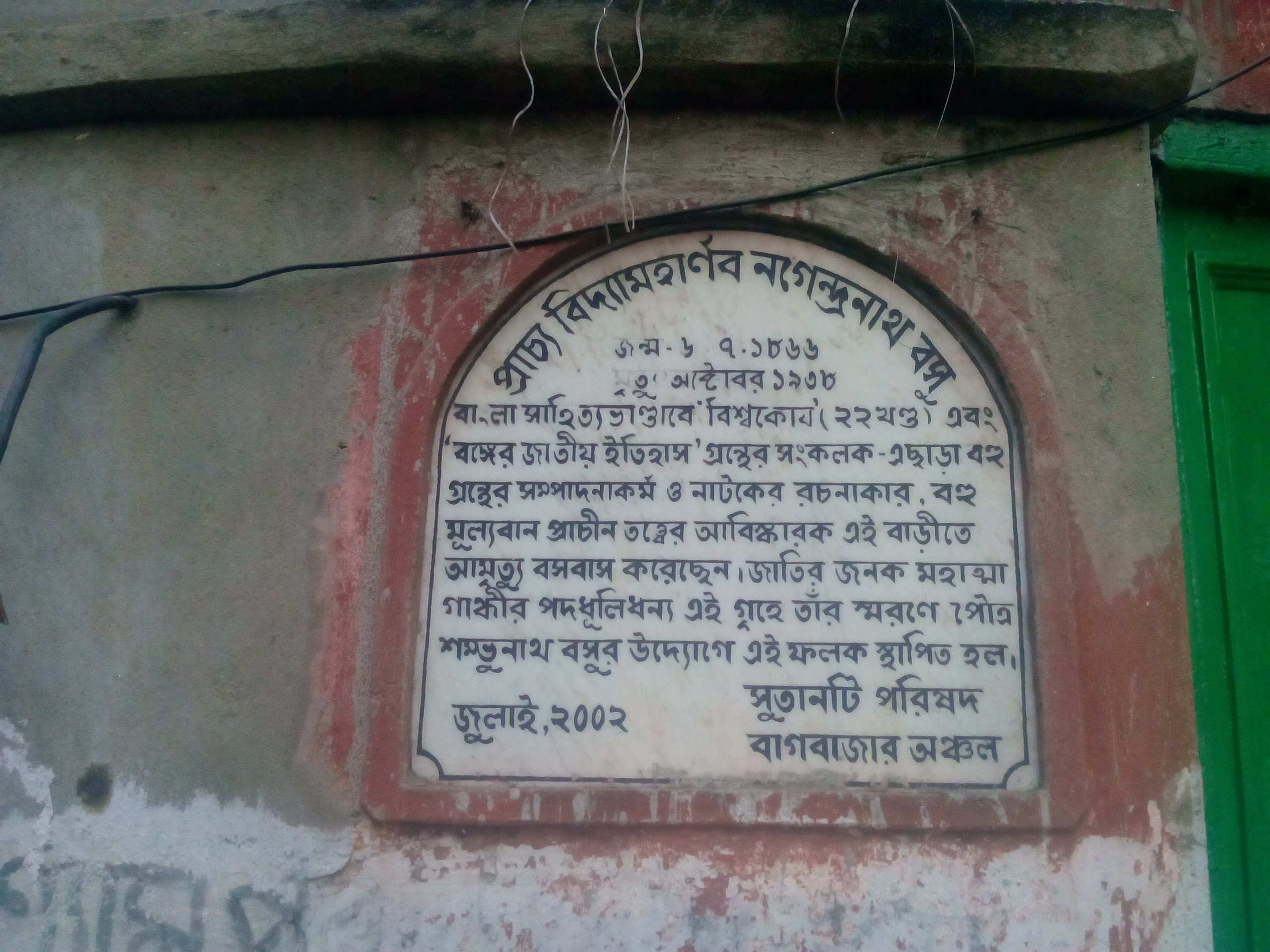 A memorial plate dedicated for Nagendranath Basu in Bengali, an encyclopedia editor and a poet. Bagbazar, Kolkata, India.